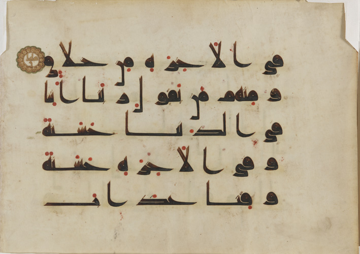 Coran of the abbasid period. Kufic calligraphy